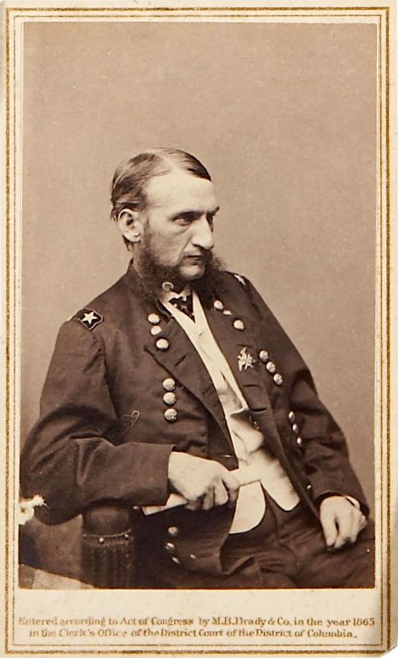 Hugh Judson Kilpatrick